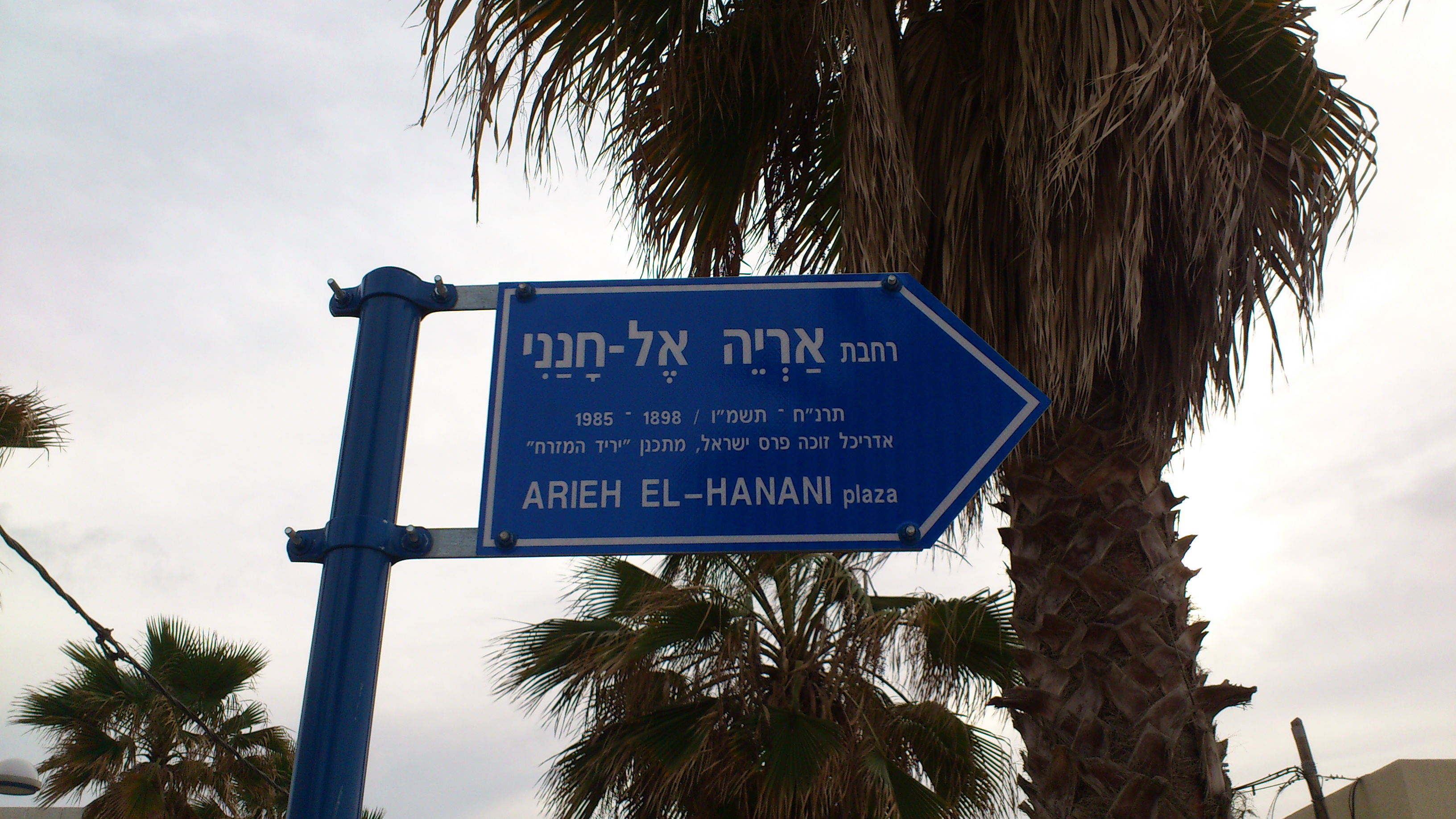 Category:Arieh El Hanani